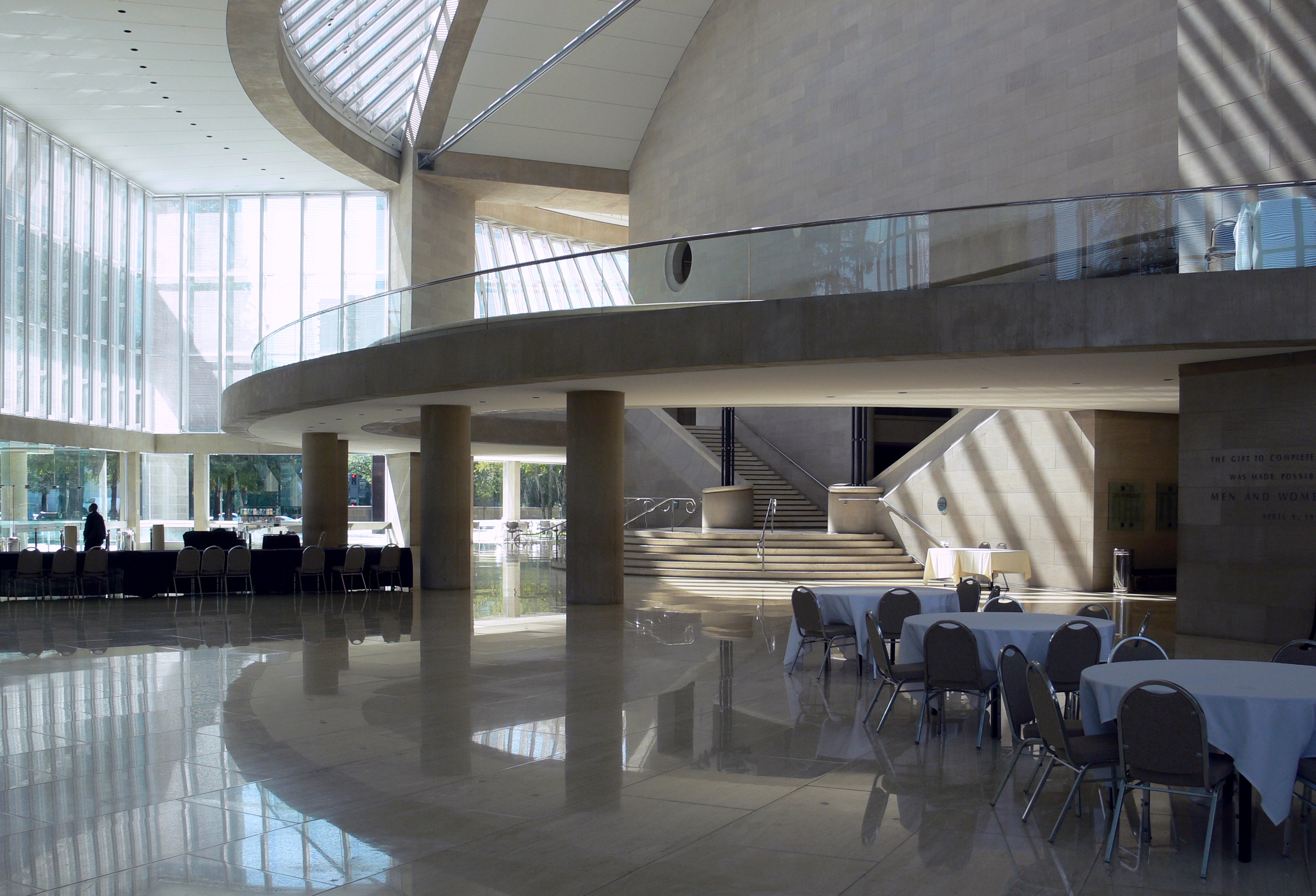 Dallas, Texas: Morton H. Meyerson Symphony Center